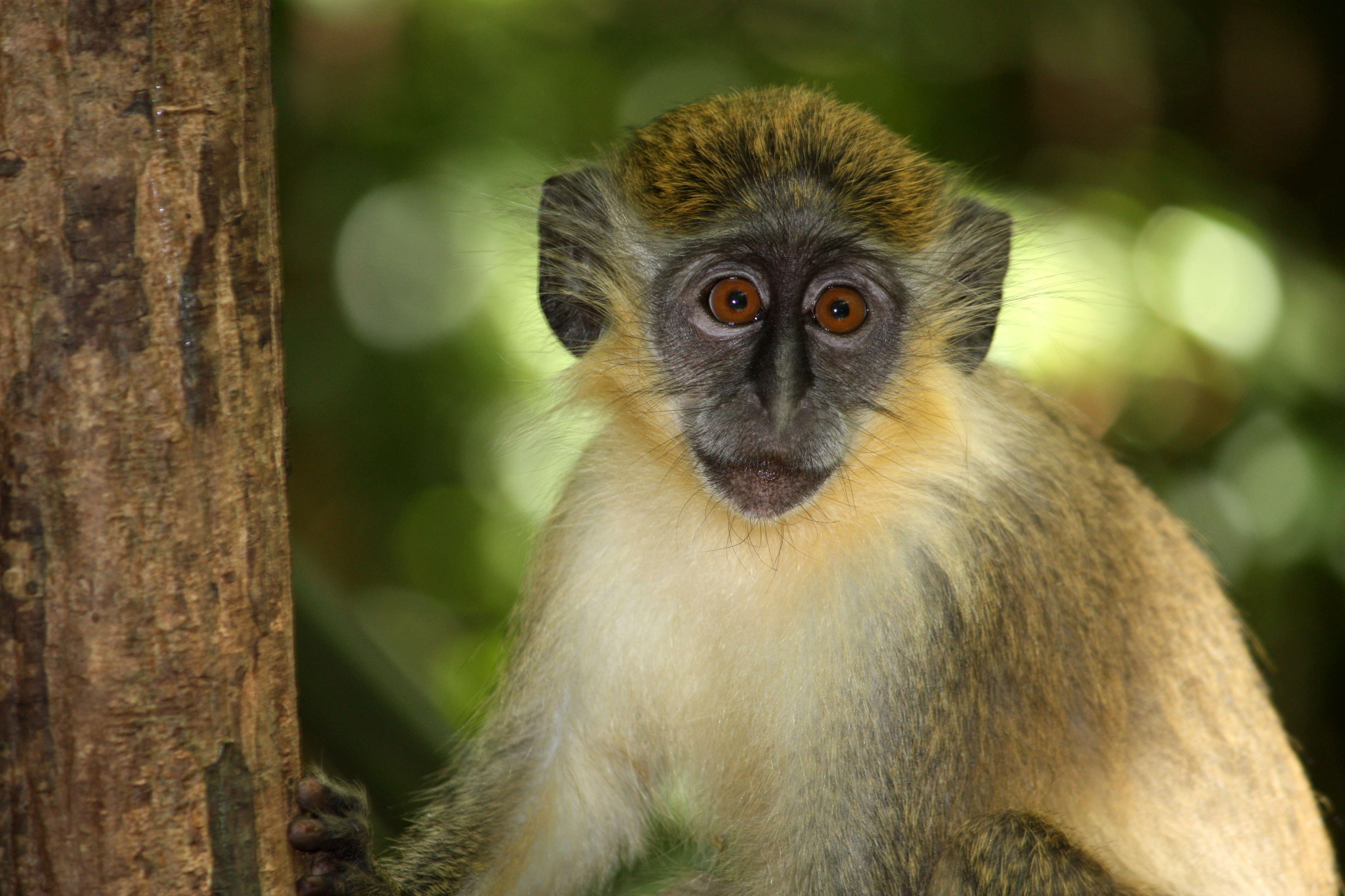 Green Monkey (Chlorocebus sabaeus). Grenade Hall Forest, Barbados.